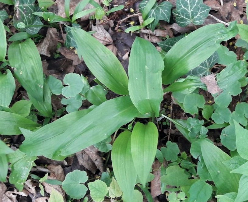 Allium ursinum, Vienna, Austria